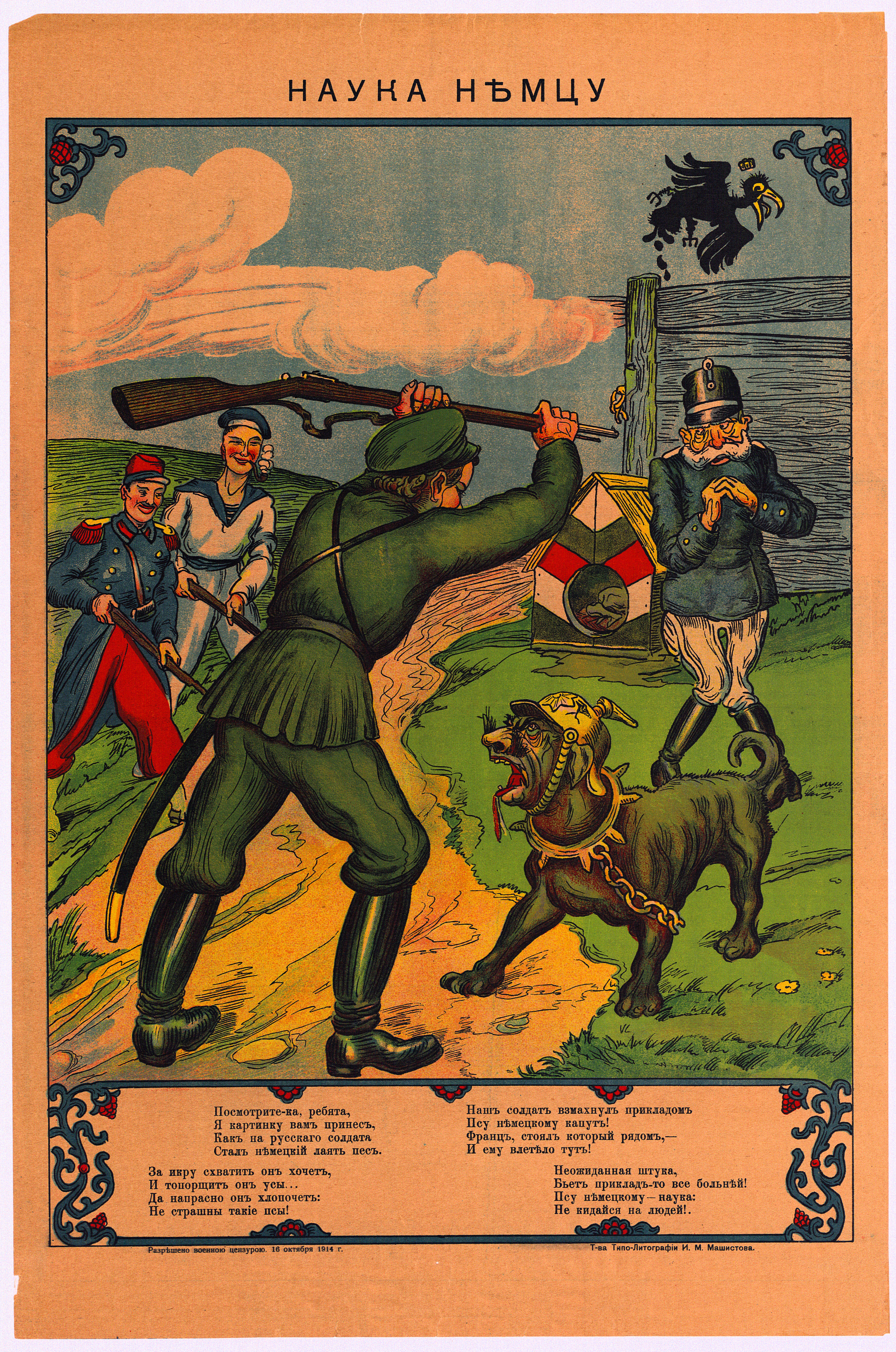 Russia. Anonymous. Наука Немцу (The Germans a lesson). Without year (probably 1914). 61 x 41 cm. (Slg.Nr. 41a) propaganda poster in Lubok typical style. A Russian soldier beating a watchdog with the facial features of the German Emperor Wilhelm II., The Austrian Emperor Franz Josef is shivering with fear in the background. Briton and Frenchman seen laughing.